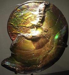 Ammonite fossil on public display at the American Museum of Natural History, New York City. I clicked with my camera.